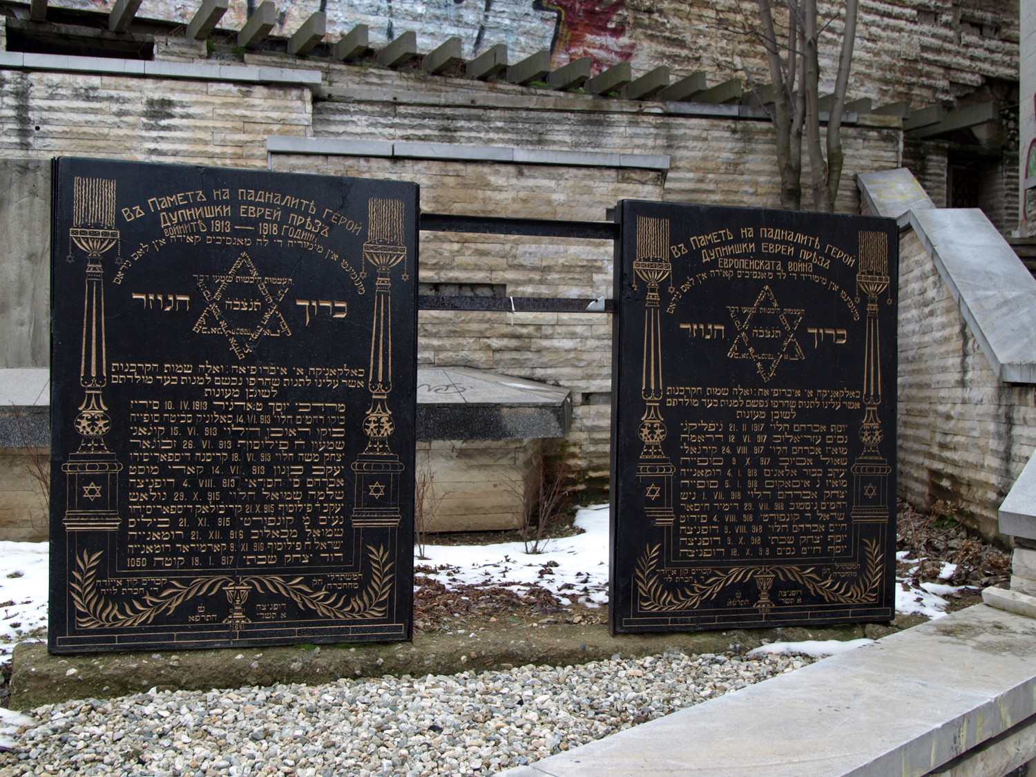 Memorial Steles to the Jewish citizens of Dupnitsa, Bulgaria, fallen in the wars.